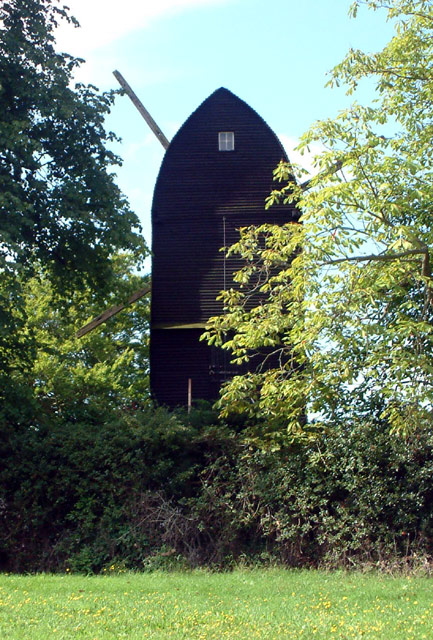 Photograph of Keston windmill